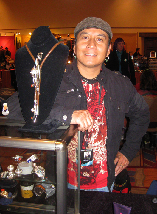 Fritz Casuse, Diné/Navajo jeweler and painter, Santa Fe, NM, 2011